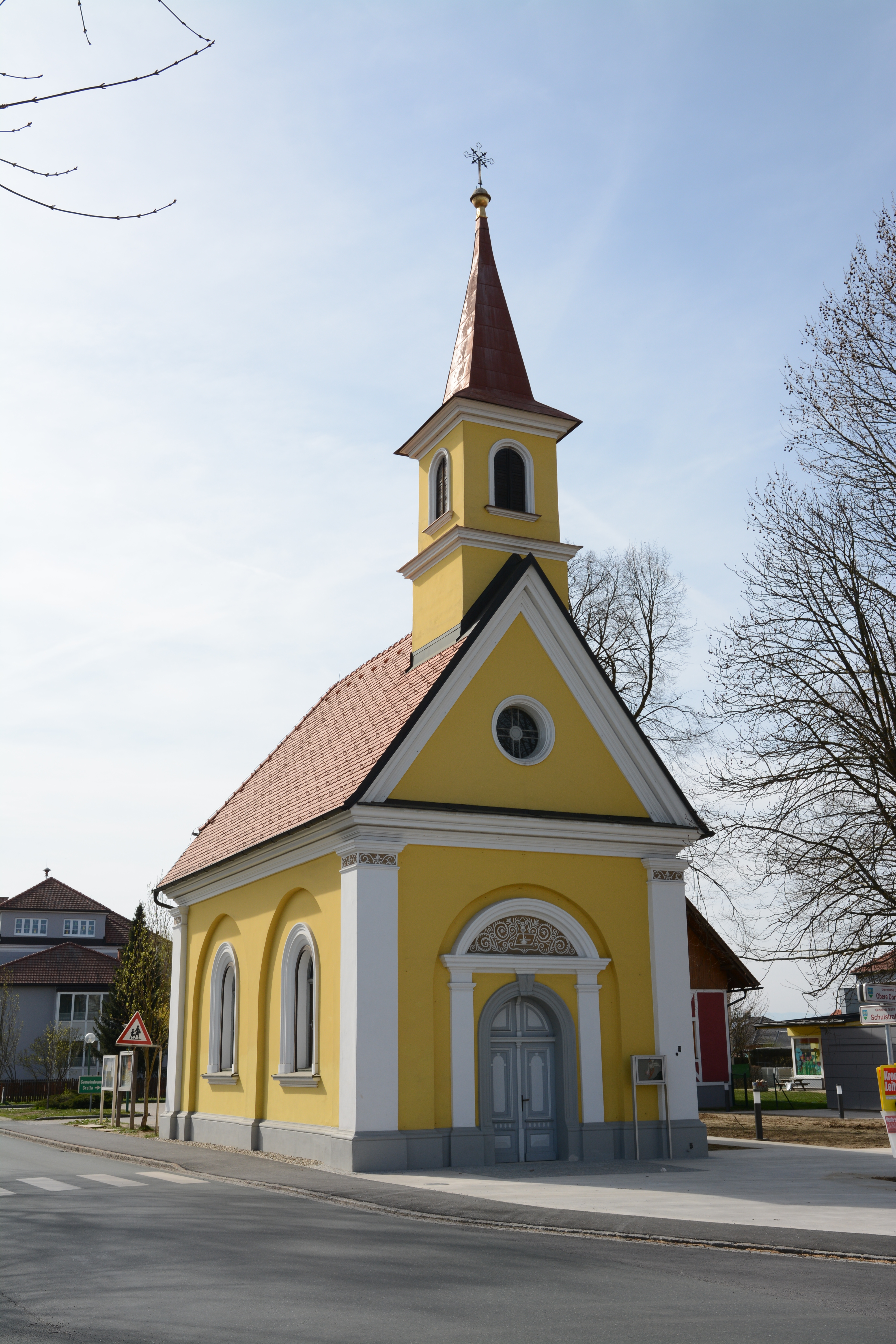 Church Gralla